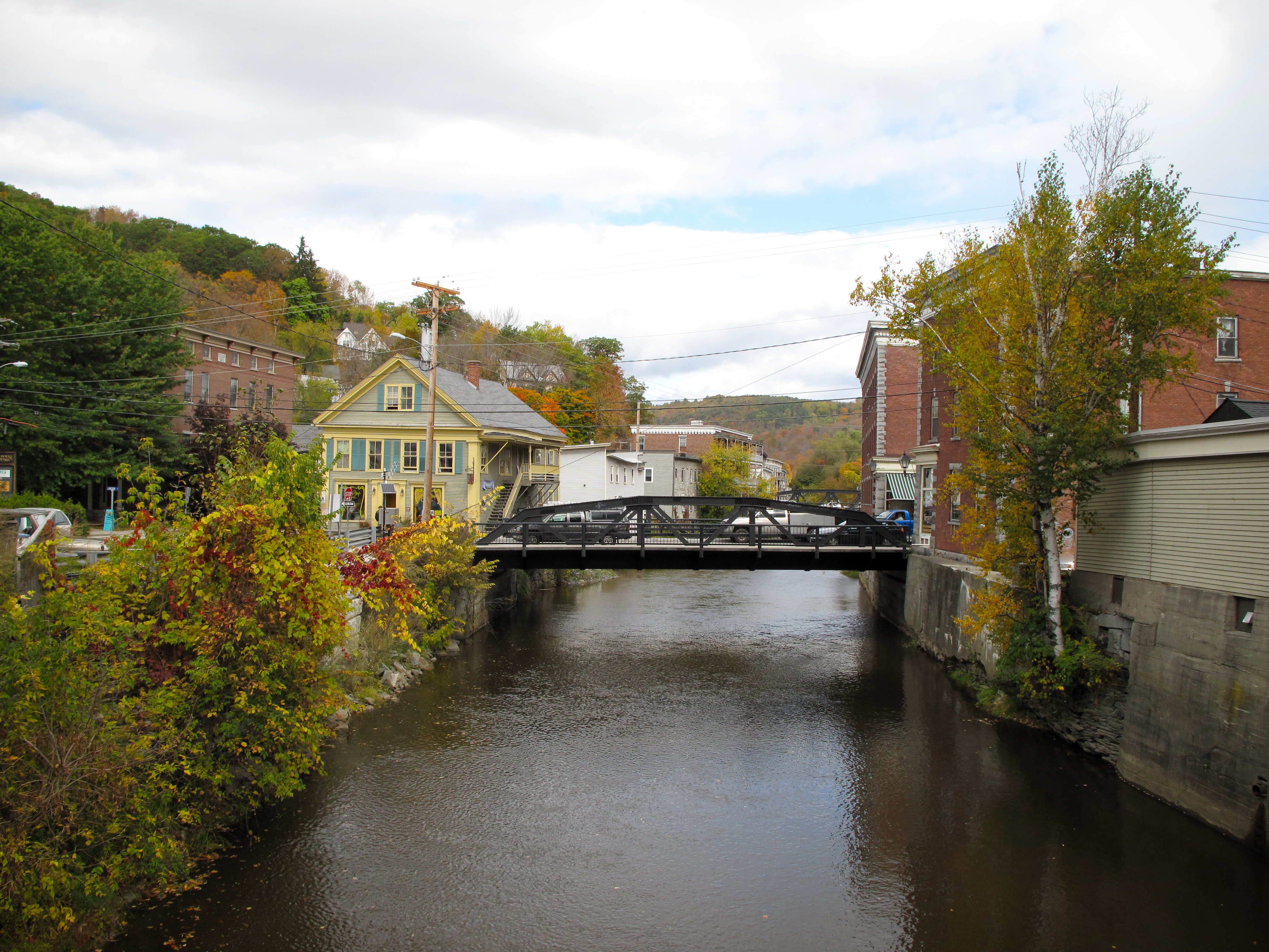 Winooski River in Montpelier, Vermont, USA.